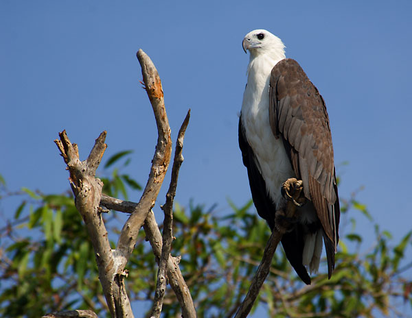 Corroboree Sea Eagle, Chilika Lake, Western Australia